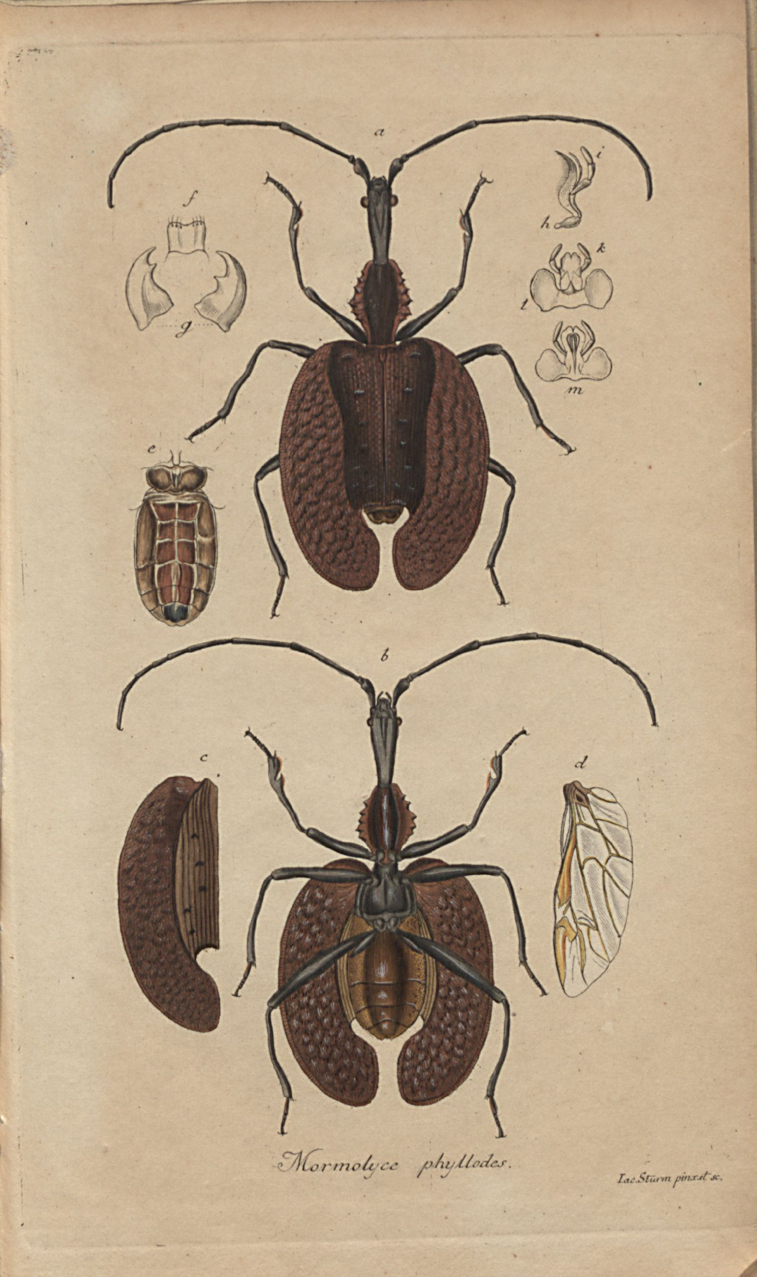 Plate from Johann Jacob Hagenbach: Mormolyce, novum coleopterorum genus descriptum. Jac. Sturm, 1825.